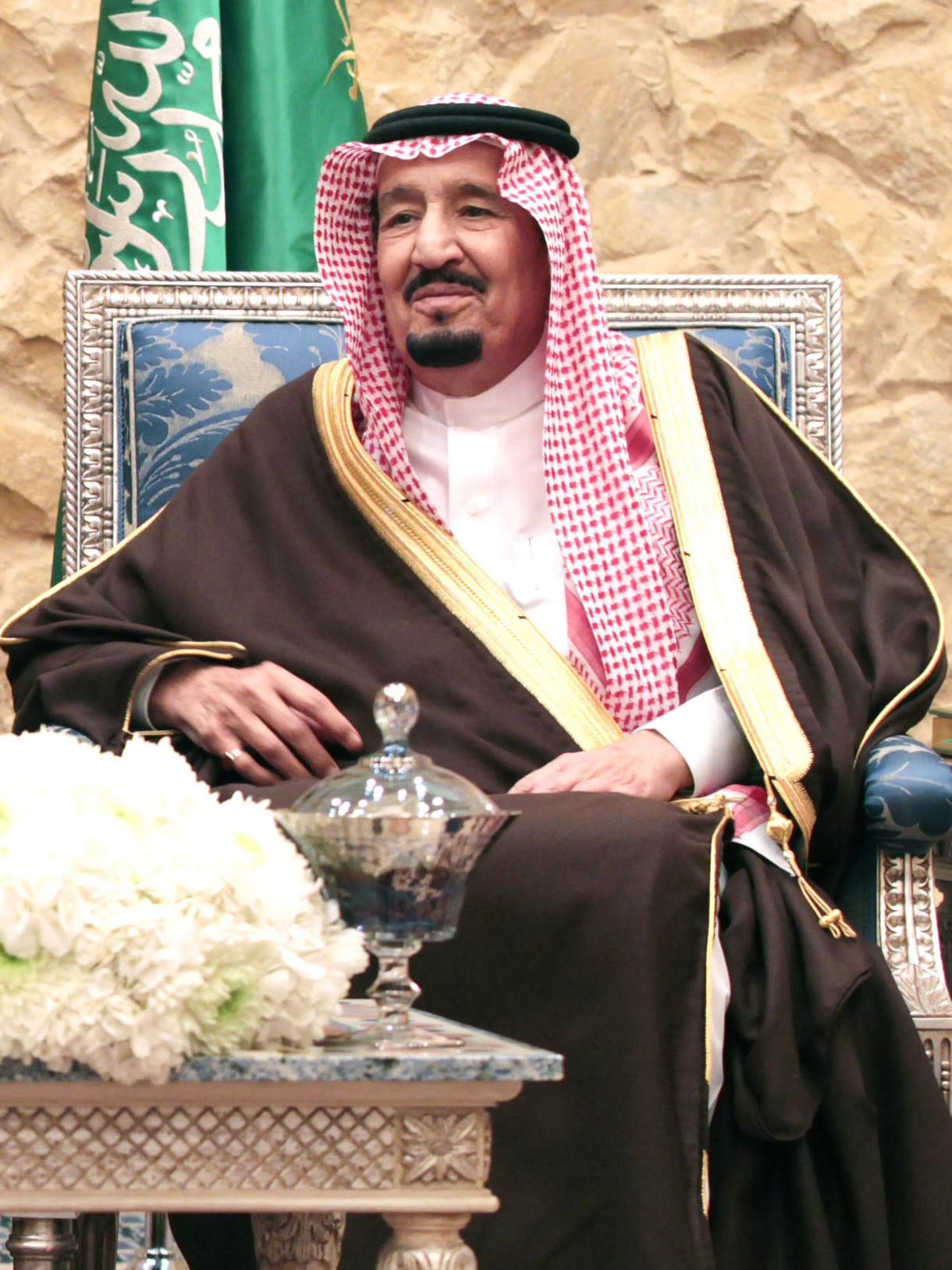 Philippine President Rodrigo Duterte converses with King Salman of Saudi Arabia in Riyadh during the former's state visit to the country on April 11, 2017.